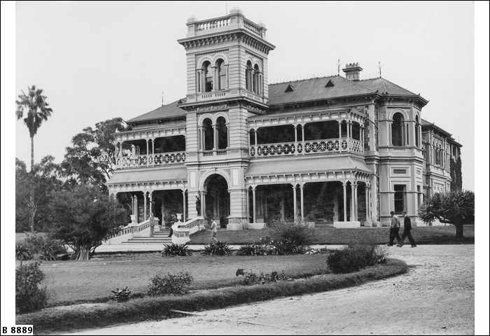 Photo of Paringa Hall taken in 1933